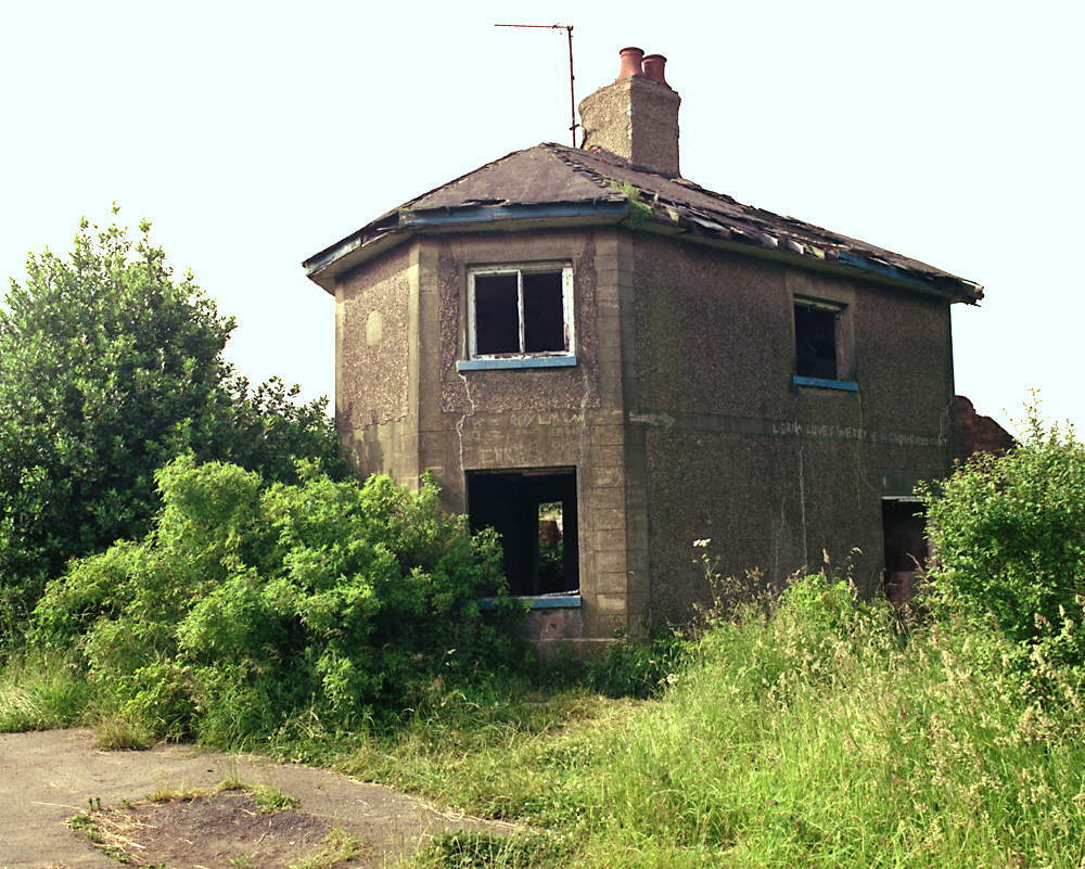 Bagworth incline-keeper's house, Leicestershire, photographed in 1985. The design of the incline-keeper's house at the top of Bagworth Incline was based on that of the contemporary toll houses of the old British turnpike roads. Like many of them, it had a bay front with windows so that a look out in both directions could be kept. Although it was a grade 2 listed building, and probably the oldest railway building in the East Midlands, it was allowed to collapse into a pile of bricks. Crossing-keeper's houses of similar design were built where the railway crossed Station Road, Glenfield, and Fosse Road, Leicester, but these were demolished in the 1970s. Scanned from a negative taken by myself.